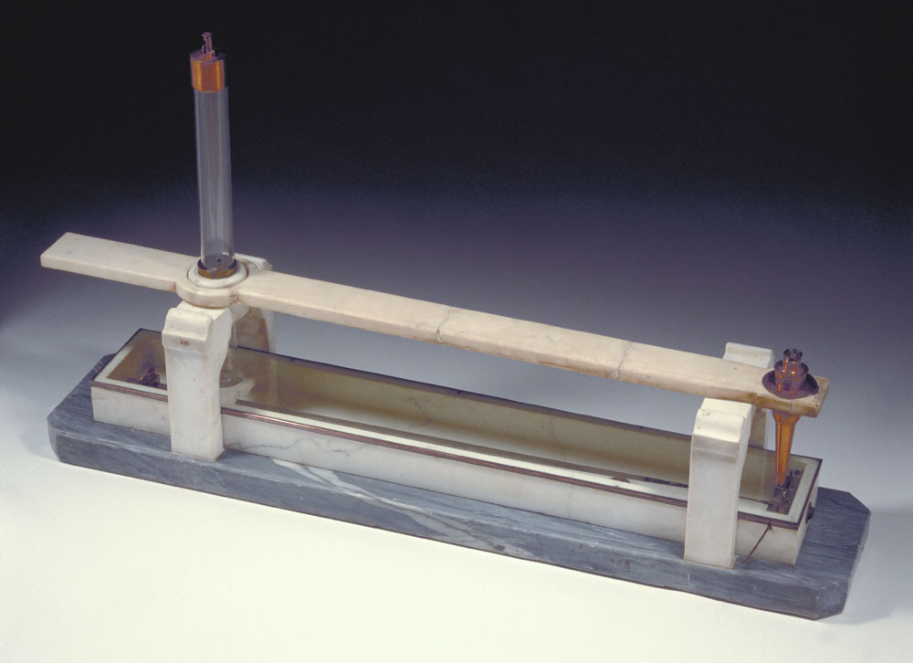 ArtistUnknownAuthorCharles Augustin CoulombDescription